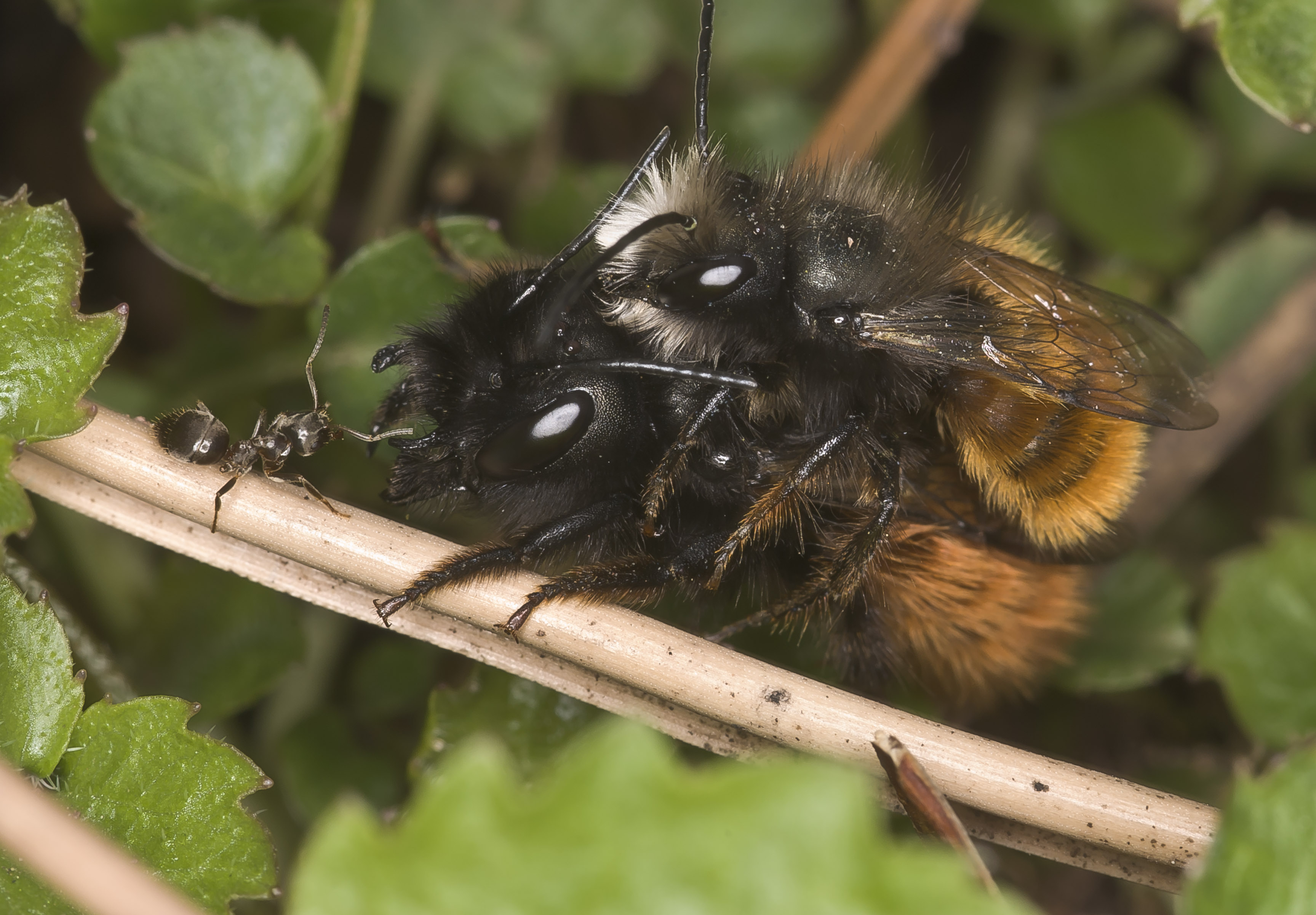 Osmia cornuta mating (Stuttgart, Germany)